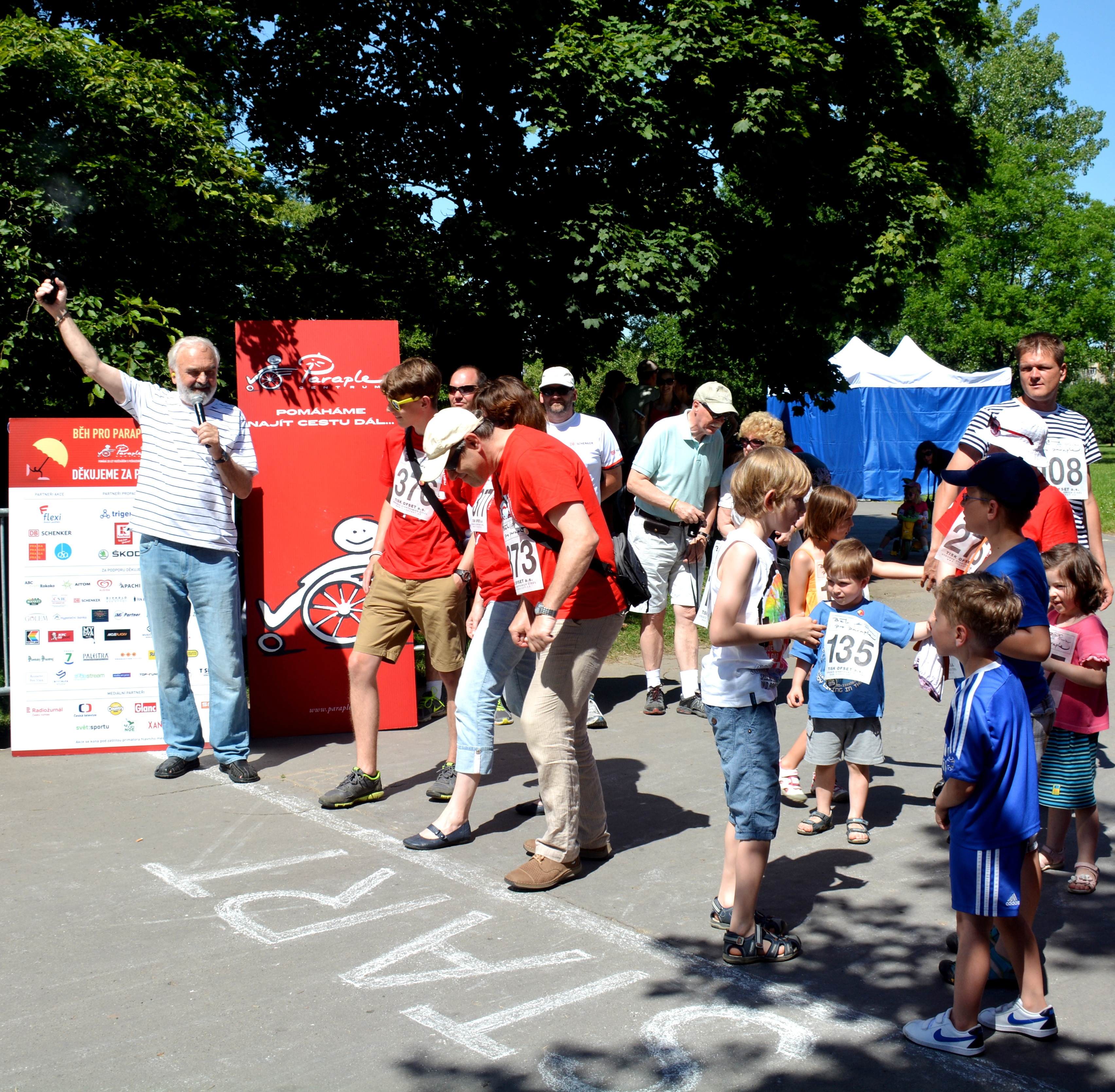 Zdeněk Svěrák (left) starts one round of the Run for Paraple (2014)